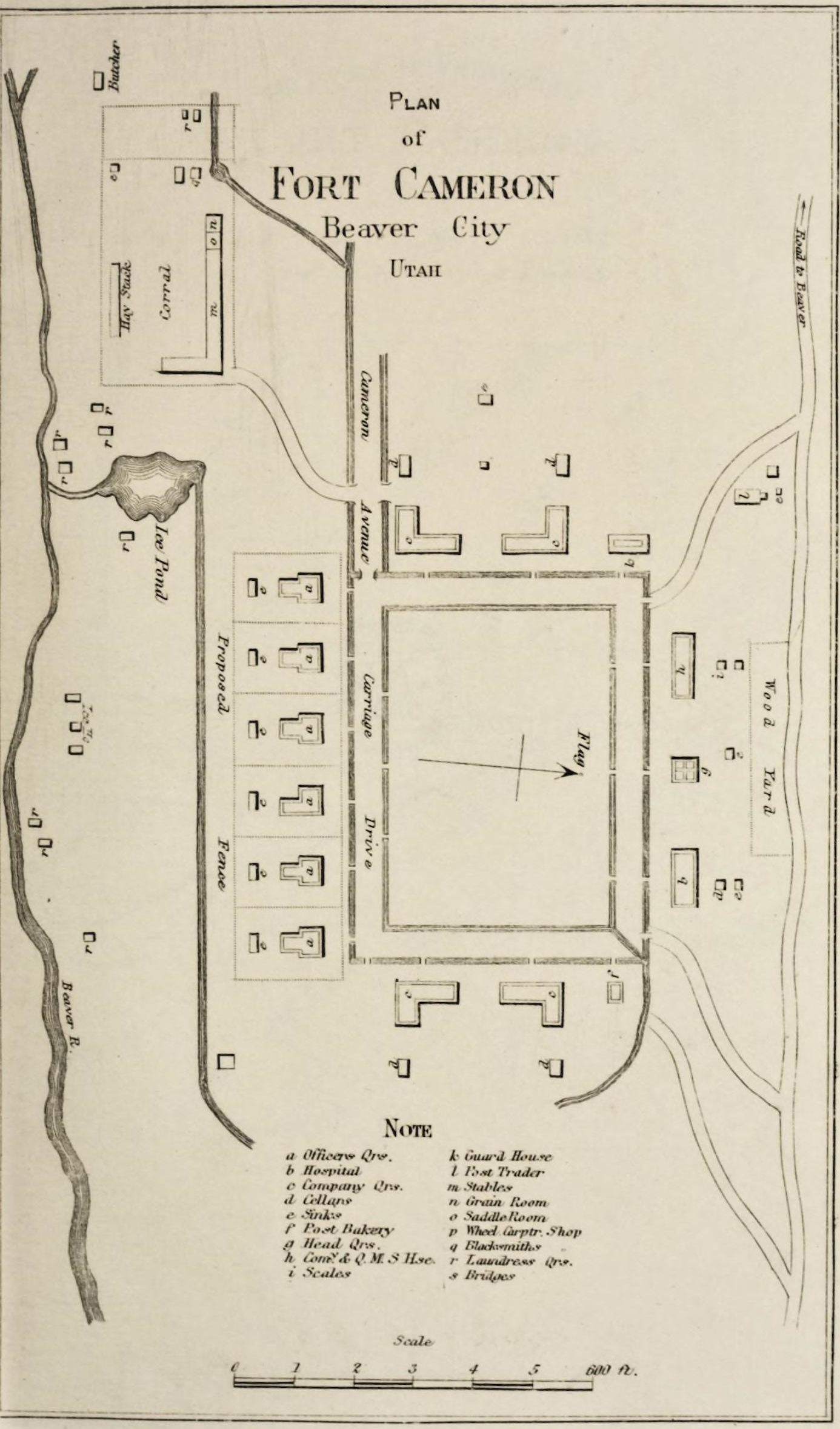 Map showing plan of Fort Cameron, Utah Territory. First named Post of Beaver (May 25, 1872), it was renamed Fort Cameron, July 1, 1874. Surveyed May, 1872. Designed for four companies